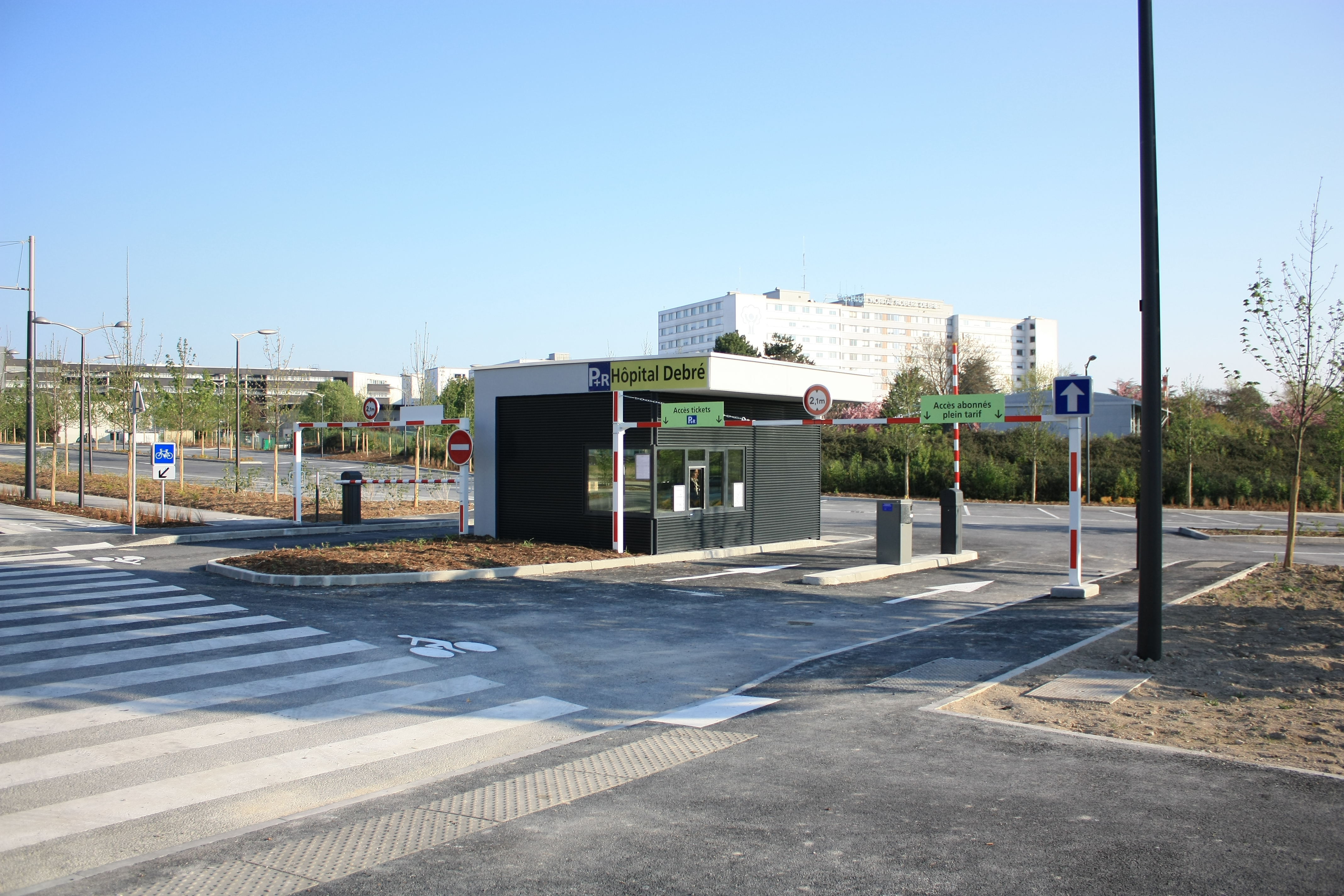 Entrance of P+R "Hôpital" in Rheims